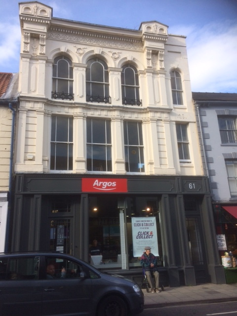 61 Eastgate Louth